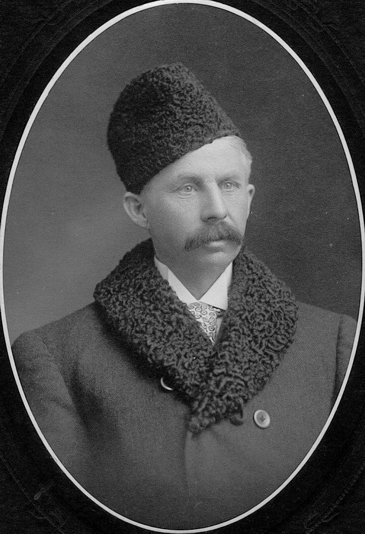 Professional portrait of Edwin P. Dey, boat-builder, arena and hockey team owner.